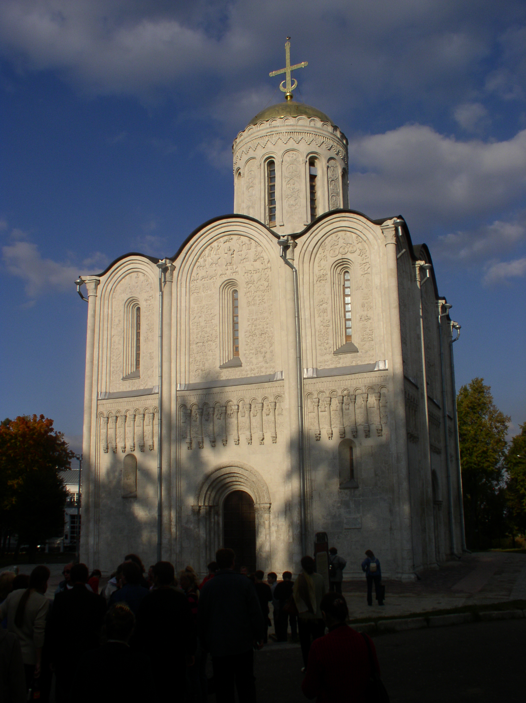 Cathedral of Saint Demetrius. Vladimir, Russia.